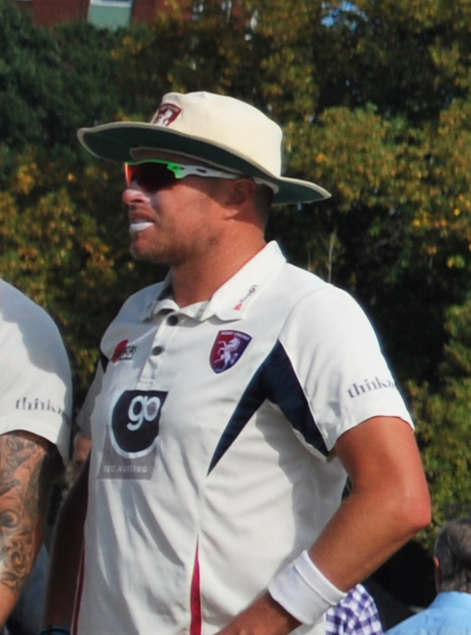 Mitch Claydon at the Kent County Cricket Ground, Beckenham in September 2016